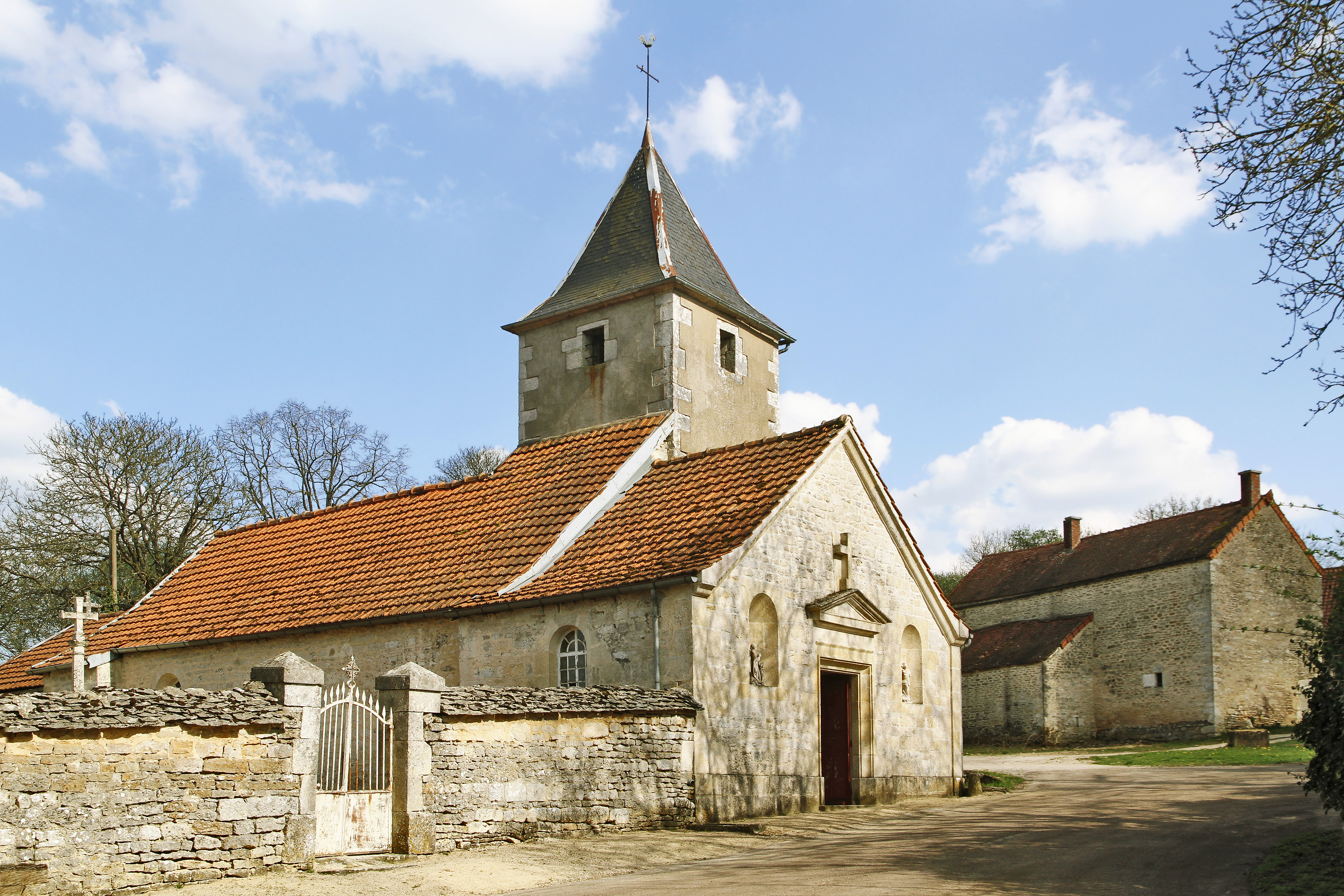 Church of Saint-Sulpice in Chaugey